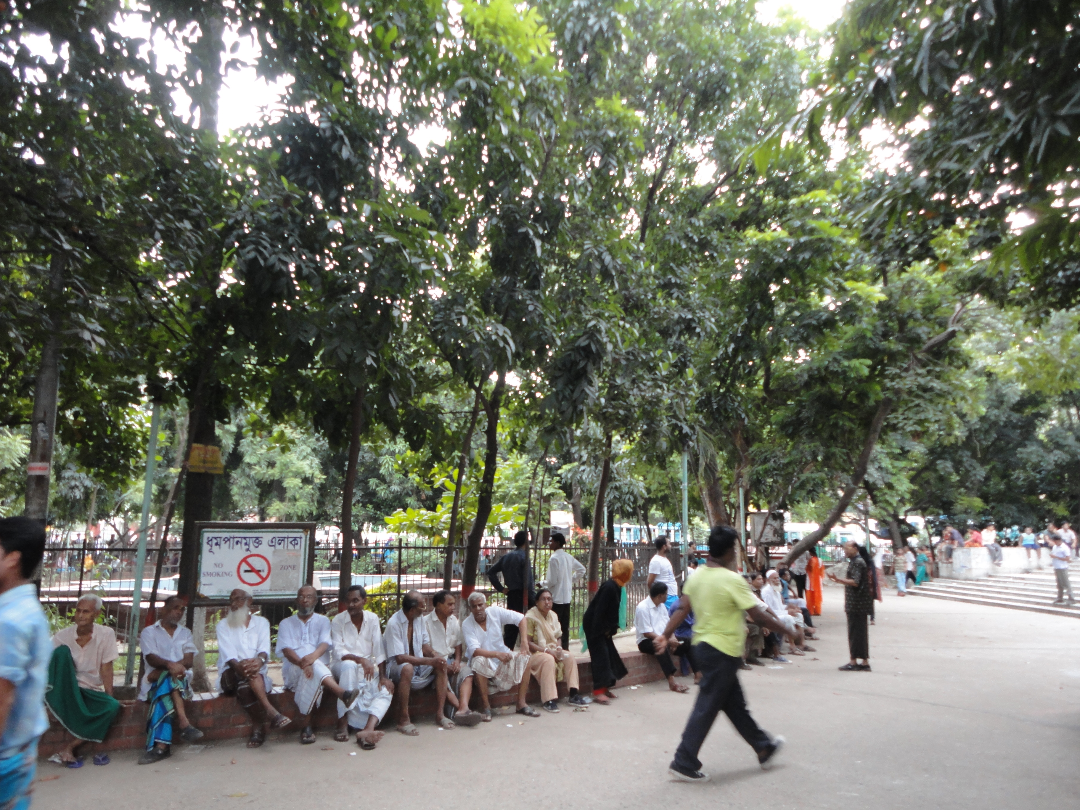 Bahadur Shah Park, Sadarghat, Dhaka, Bangladesh.